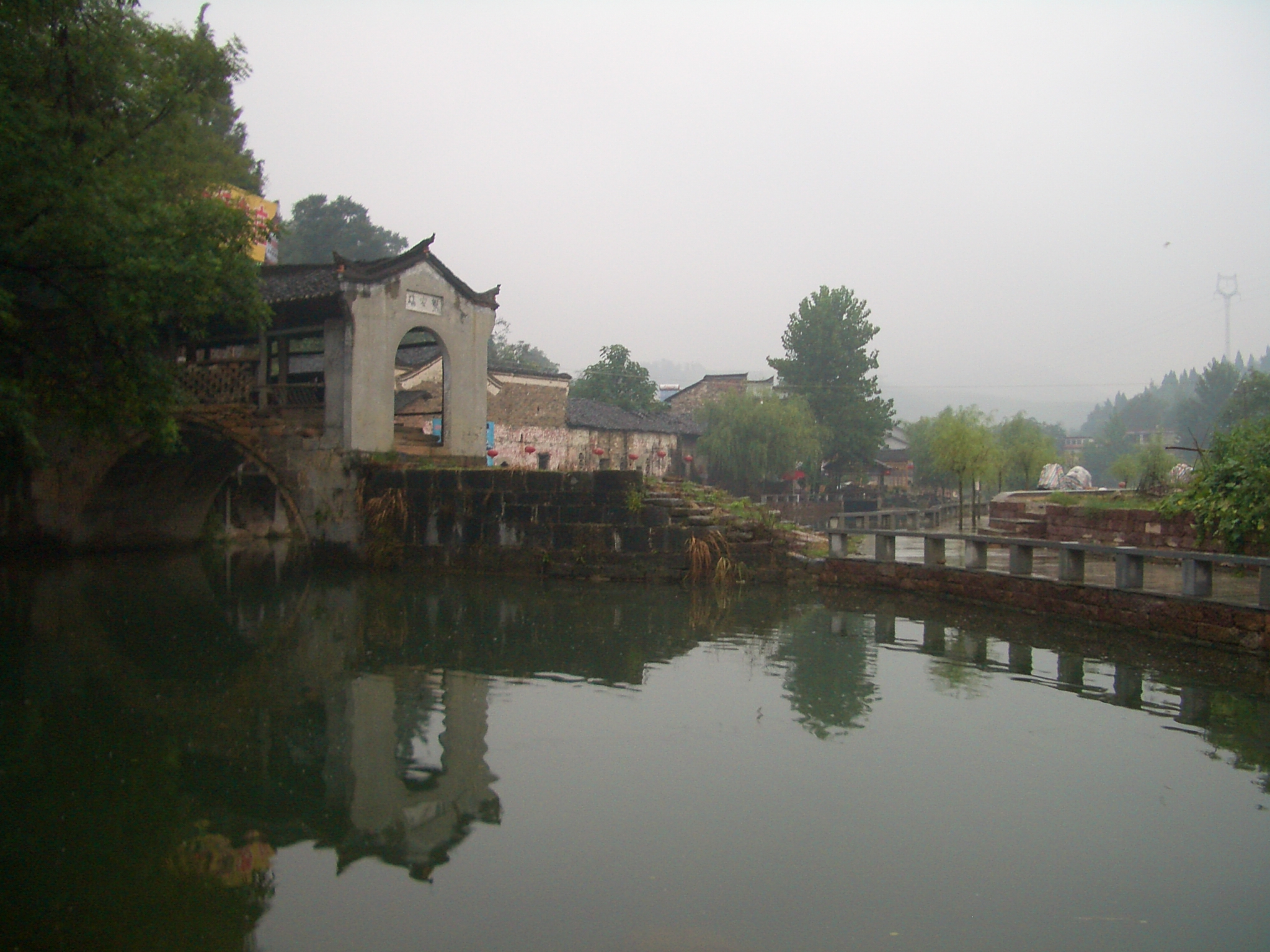 Liu Jia Qiao (刘家桥, "Liu Family's Bridge" - or 刘家硚, how they spell it there, with the "stone" radical), a village on the Provincial Road S209 between Xianning and Tangshan, still within XIan'an Qu. Its stone buildings lined along a river section (or just a lake maybe?) have a number of restaurants etc, and are decorated for the enjoyment of travellers